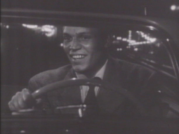 Cropped screenshot of Neville Brand from the film D.O.A. (1950).